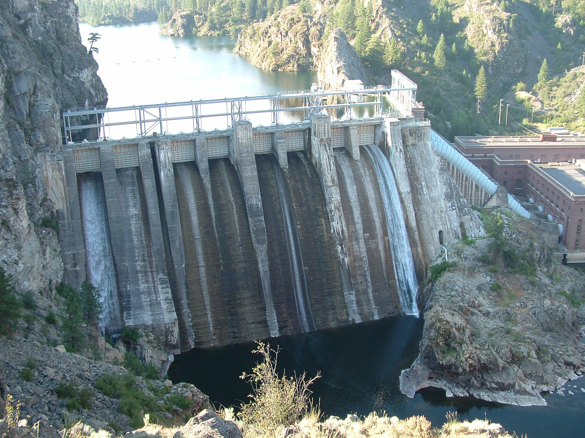 Long Lake Dam on the Spokane River. Photo by James Stripes.